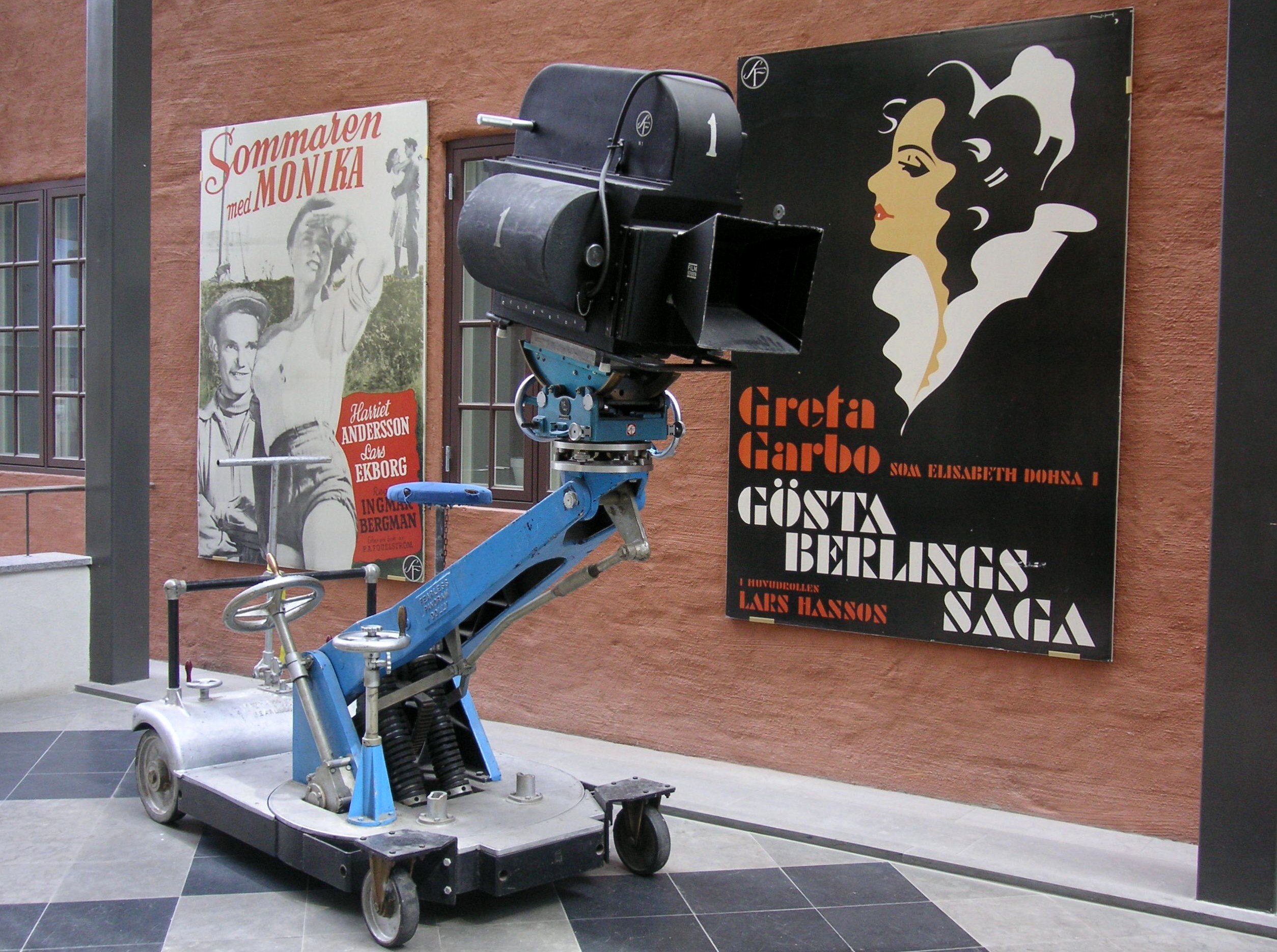 The former Swedish filmstudios "Filmstaden" in Solna